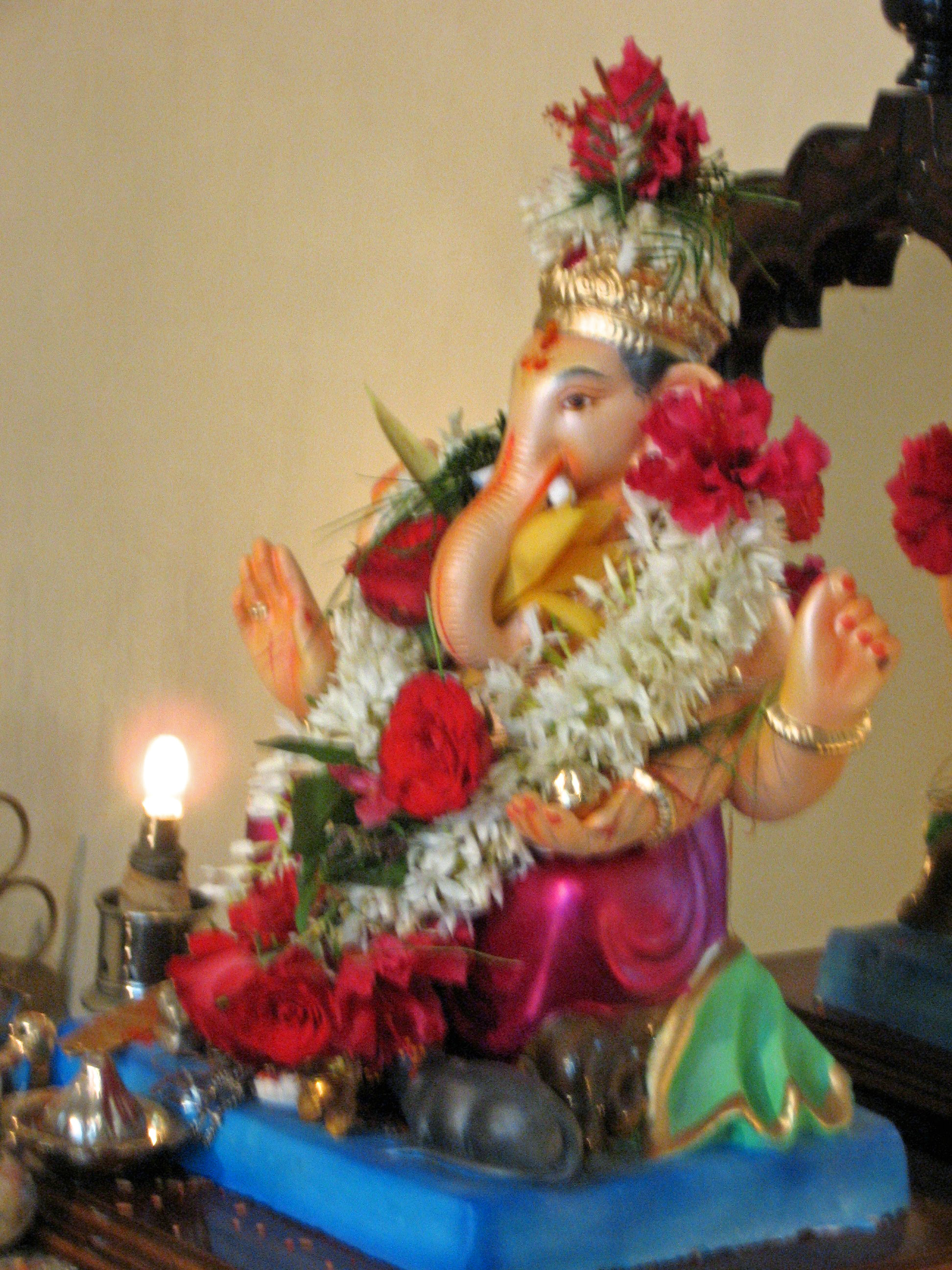 A Clay Ganesh Murtis like this one, are worshipped in every home during Ganesh Festival